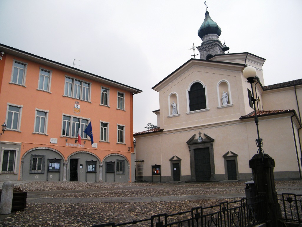 Townhall and Church of all saints. Rovetta.